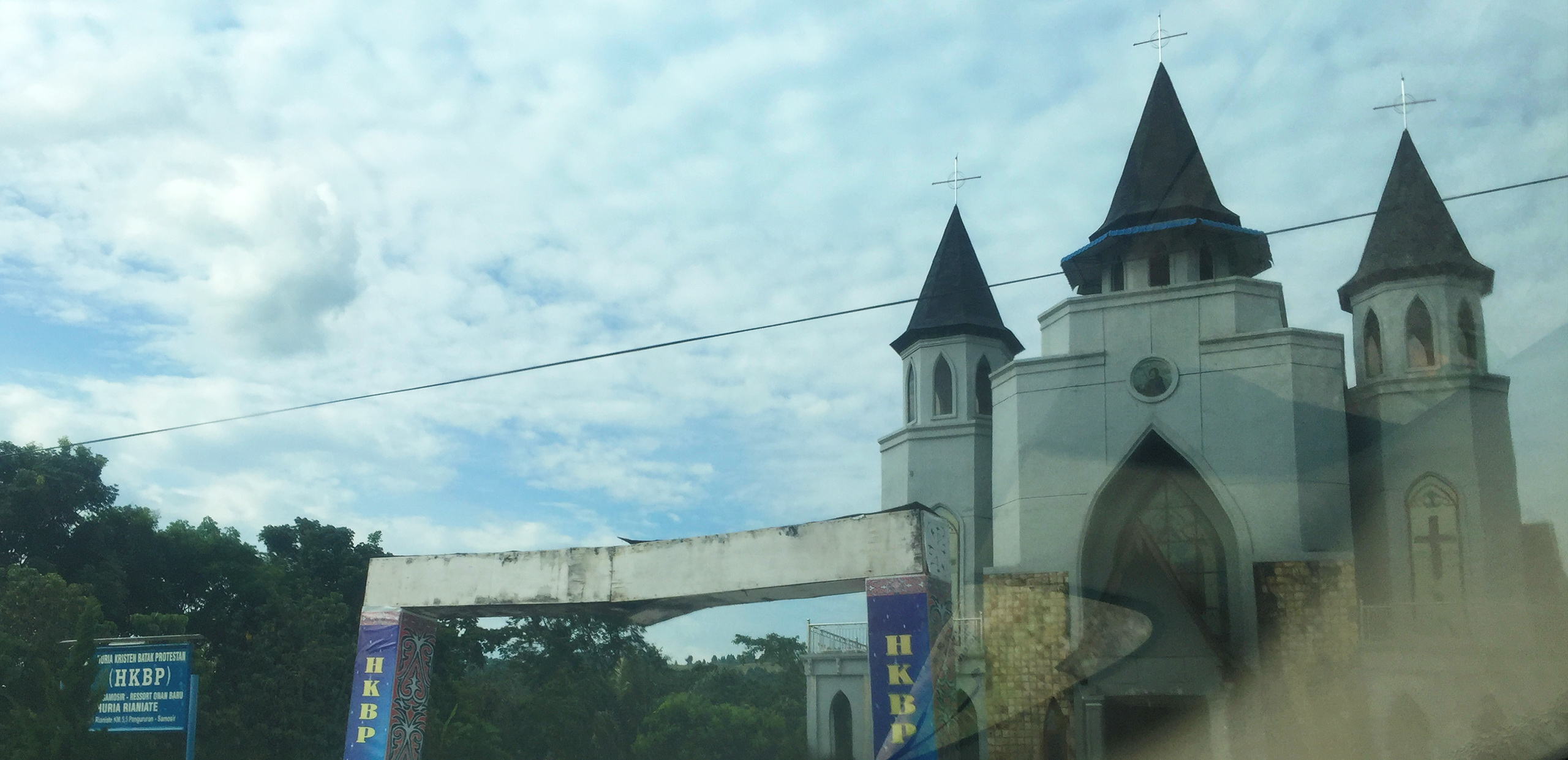 HKBP Rianiate, Church in Rianiate, Pangururan, Samosir